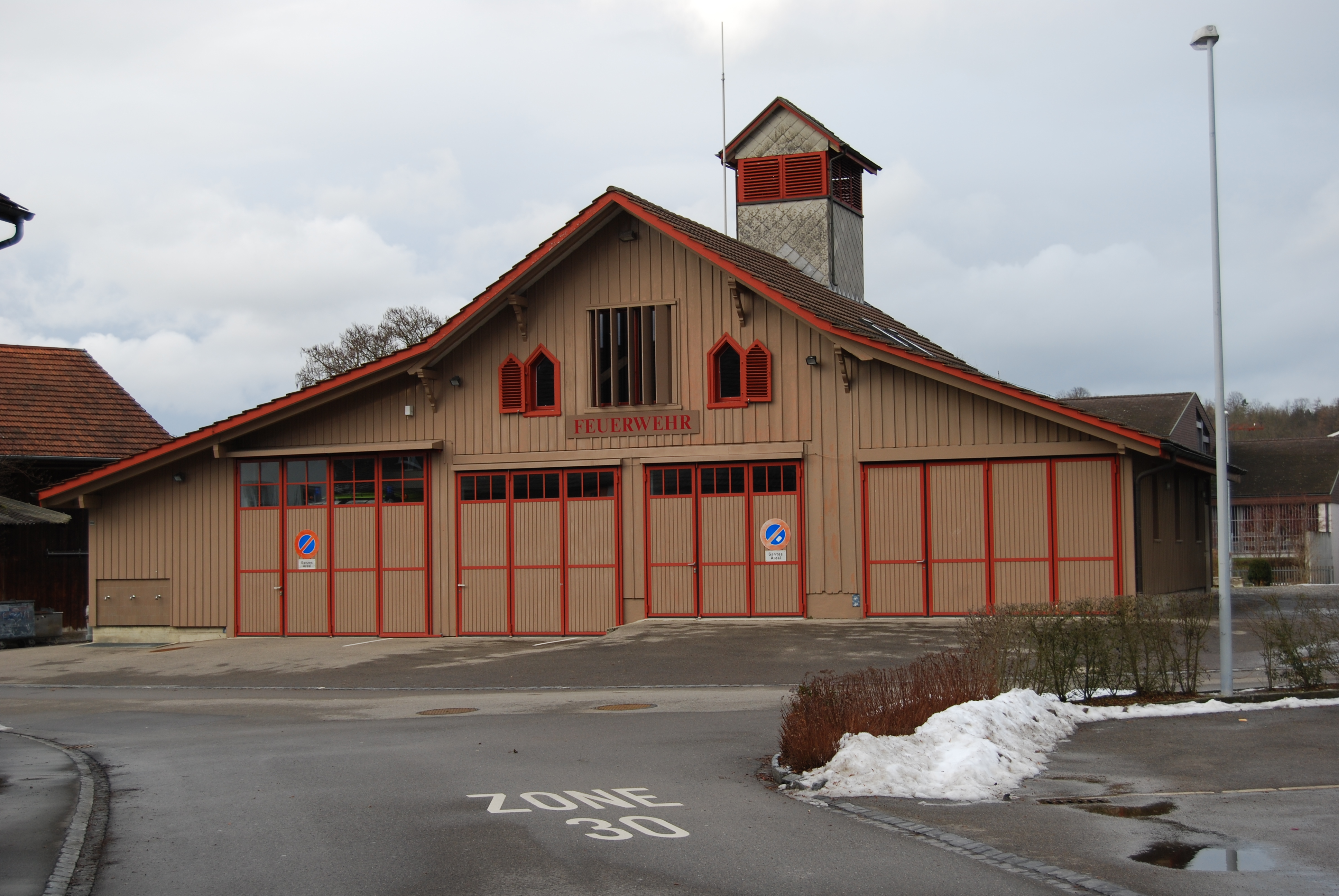 Fire fighting depot at Wiesendangen, canton of Zürich, SwitzerlandEsperanto: Fajrobrigado-deponejo en Wiesendangen, Kantono Zuriko, Svislando